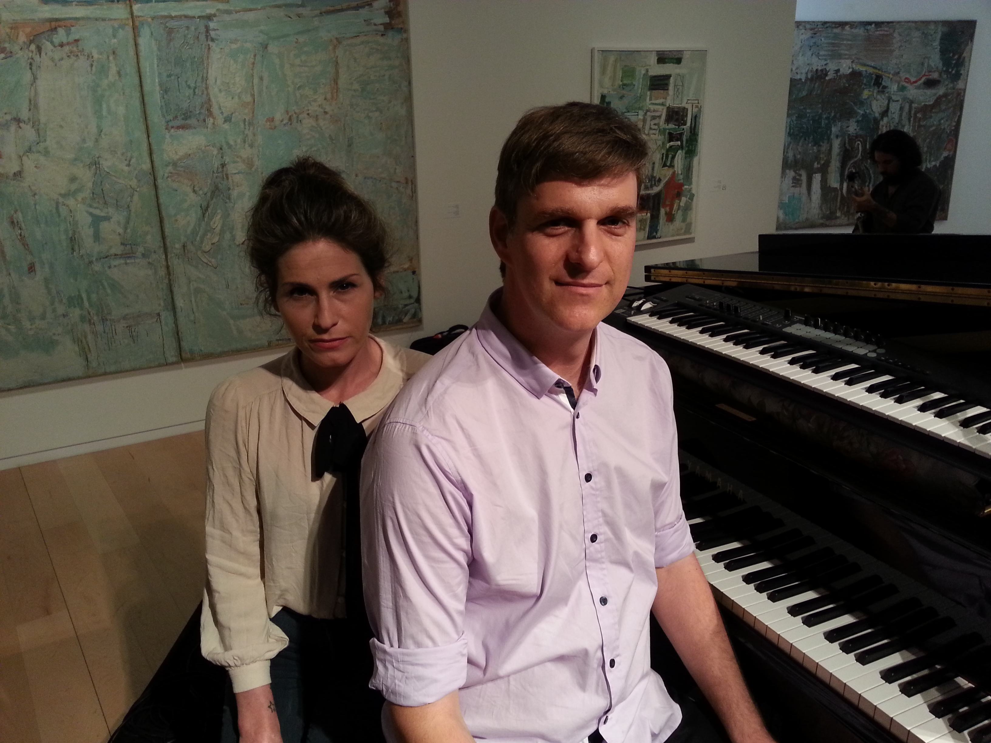 Roy Yarkoni and Karni Postel at the Piano Festival Tel Aviv 2014 Picture taken at Tel Aviv Art Museum, Israel